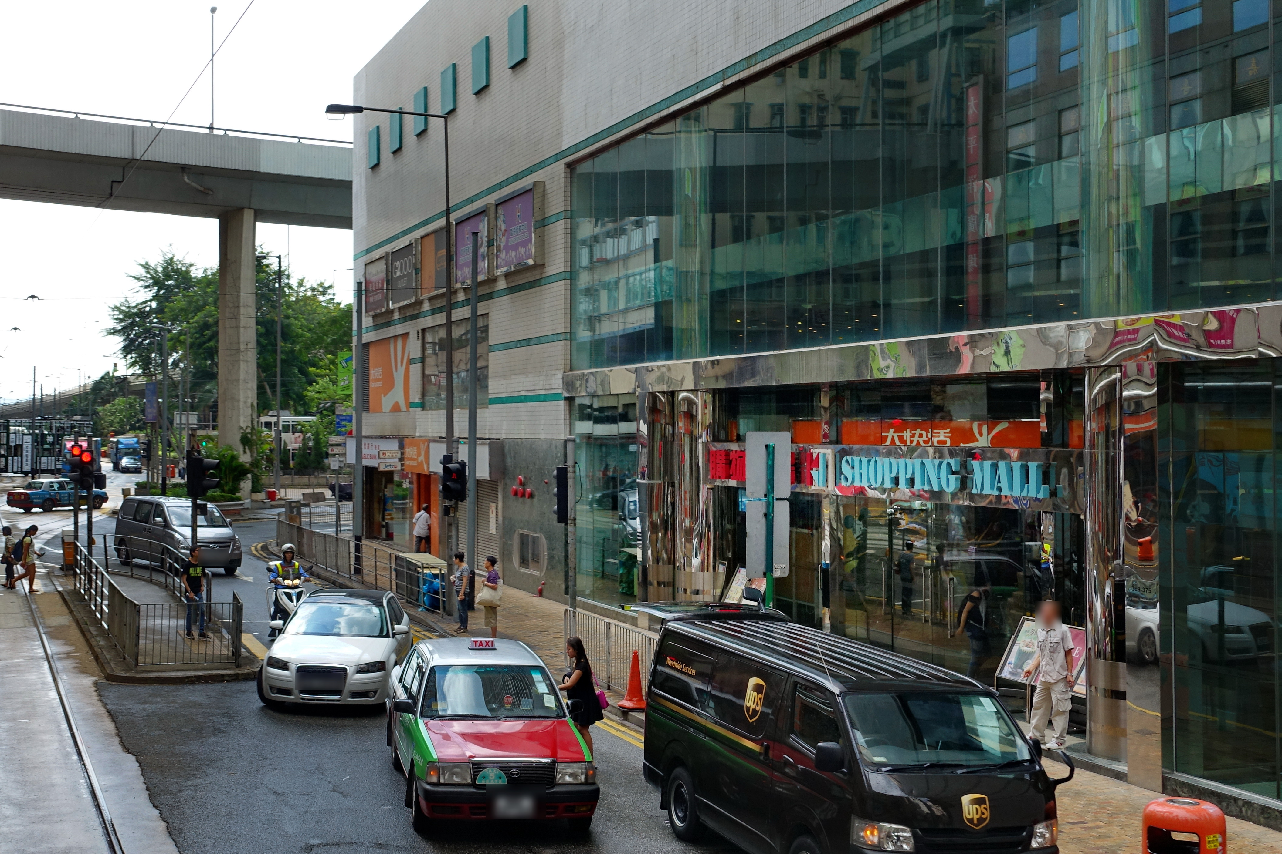 Hong Kong Plaza, Sai Wan, Hong Kong.